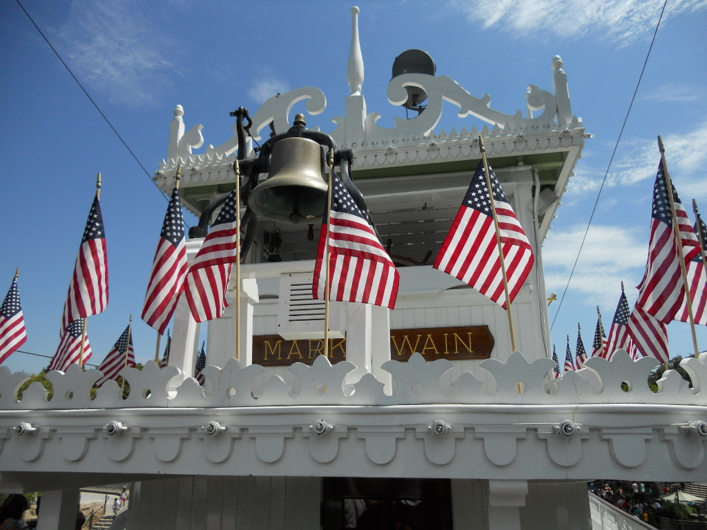 The pilothouse of the Mark Twain Riverboat in Disneyland, California.